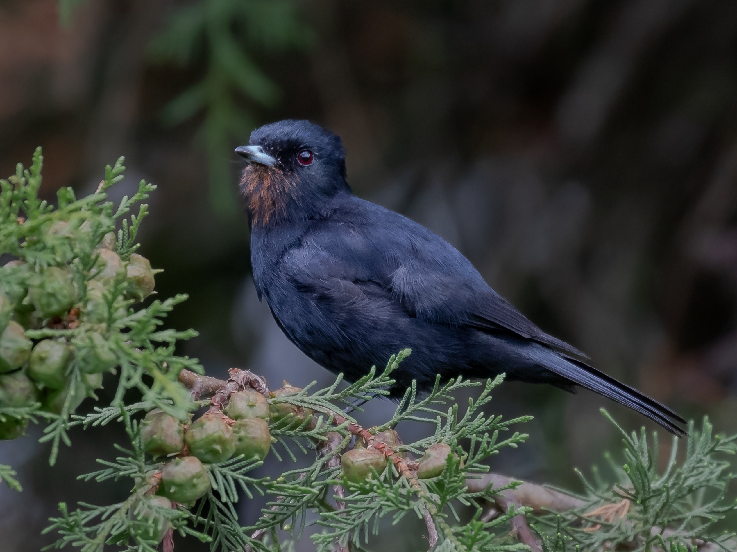 Velvety black-tyrant (female); Campos do Jordão, São Paulo, Brazil